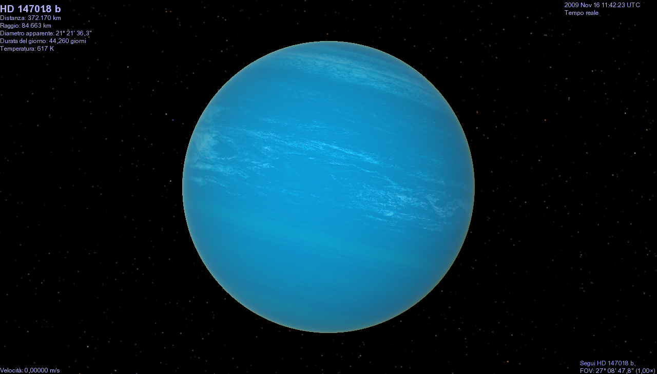 HD 147018 b, extrasolar planet candidate.